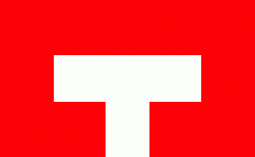 Canada Trust logo prior to takeover by Toronto Dominion Bank in 2000